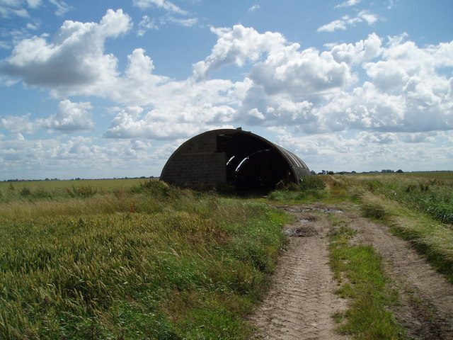 Romney Hut, Twin Rivers, East Riding of Yorkshire, England.